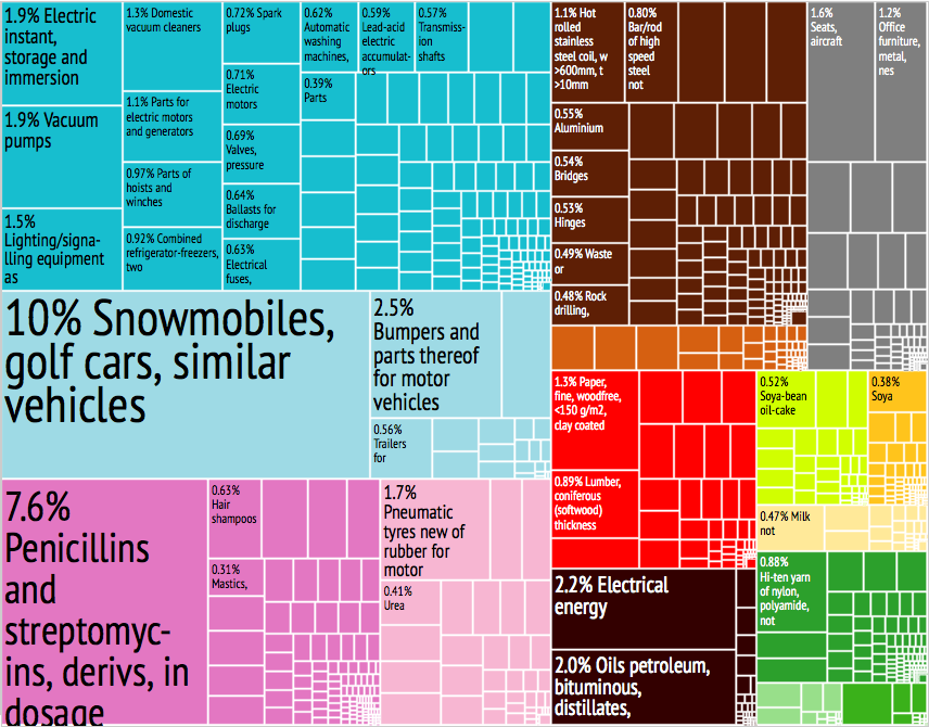 Slovenia Export Treemap from MIT Harvard Economic Complexity Observatory